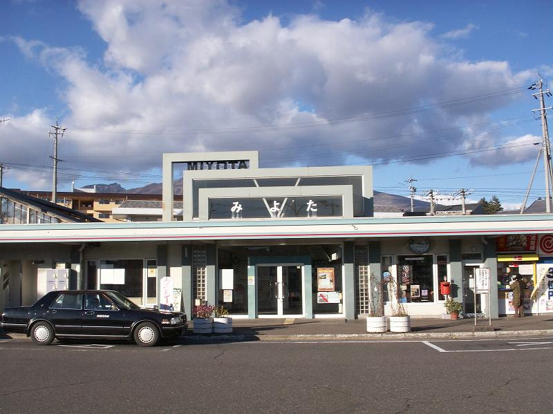 Miyota Station in Miyota town, Nagano Prefecture, Japan